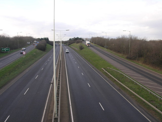 15 Meets 47 This intersection is where the A15 and the A47 meet.